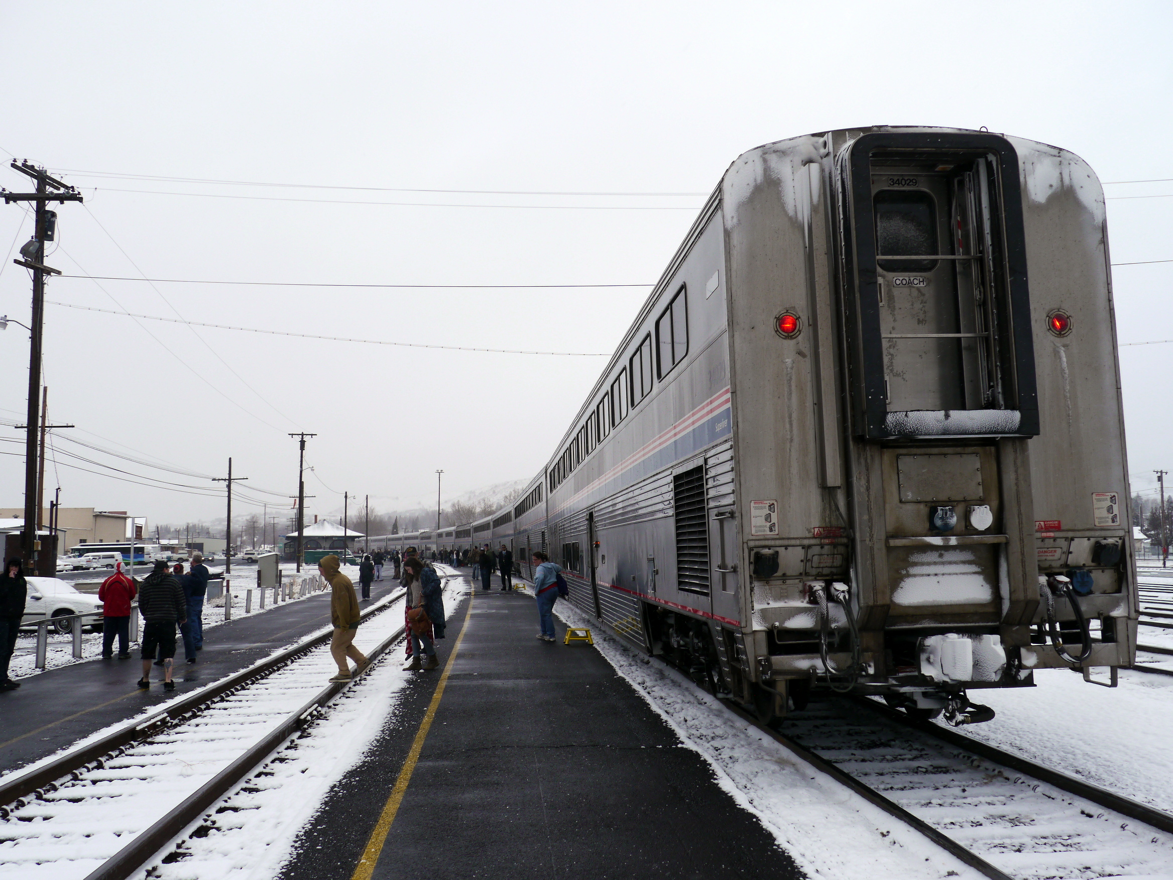 Northbound Starlight. Last car is # 34029 at Klamath Falls, Oregon.